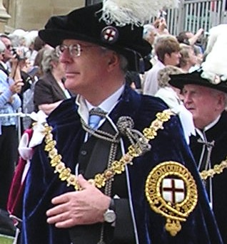 Sir John Major wearing his robes as a Knight Companion of the Order of the Garter, in procession to St George's Chapel, Windsor Castle for the annual service of the Order of the Garter.